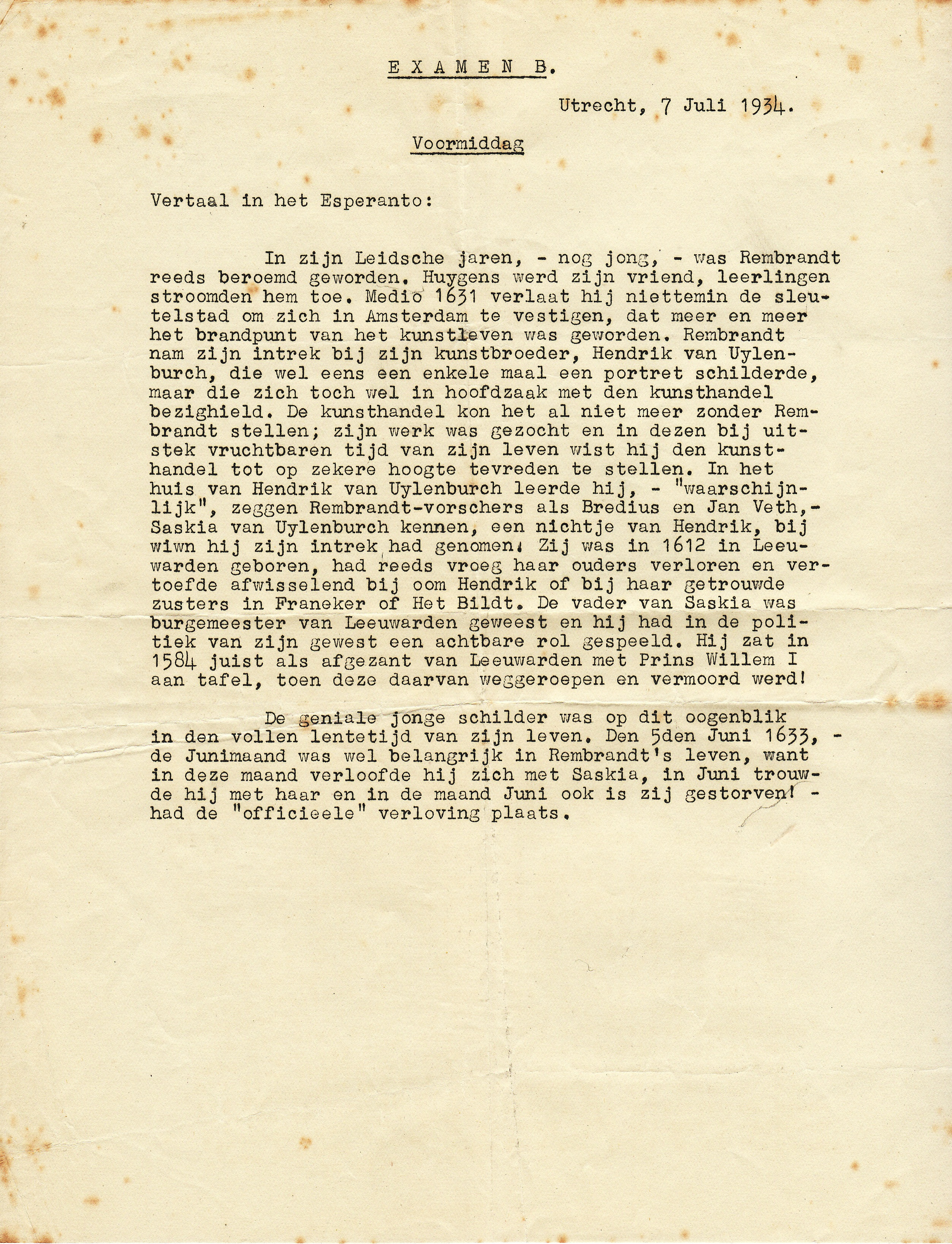 Esperanto exam in 1934, the Netherlands